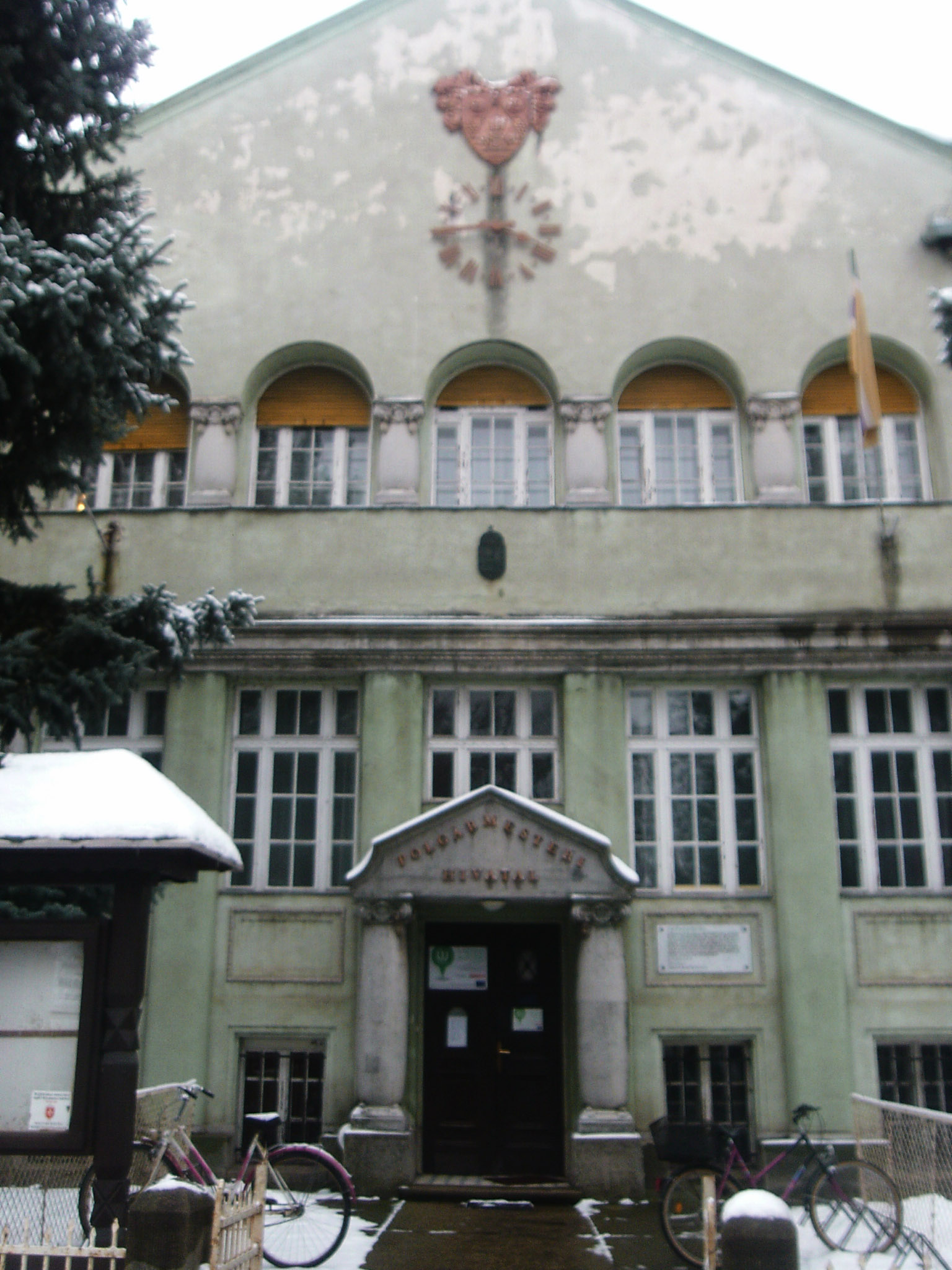 Town Hall, Dunavecse, Hungary